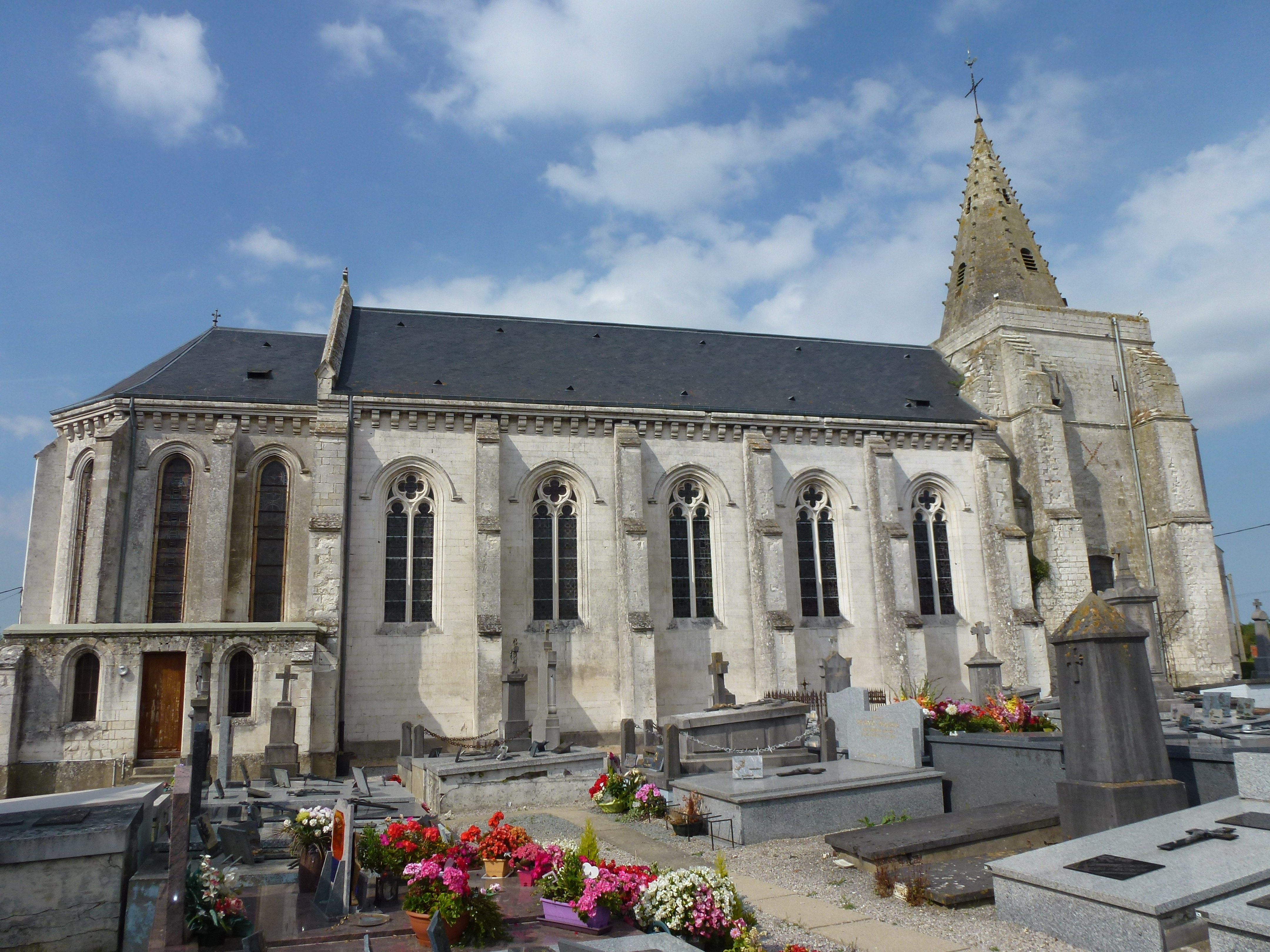 Nordausques (Pas-de-Calais) église Saint-Martin